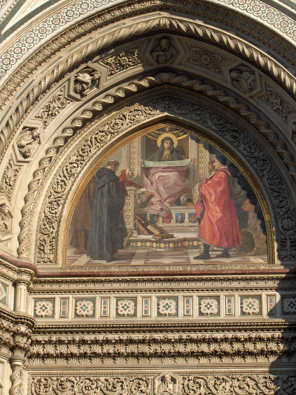 Mosaic above the left portal of the Duomo Santa Maria del Fiore; Florence, Italy Representing : Charity among the founders of Florentine philantropic institutions Own photo - photo made by Georges Jansoone on 12 October 2005